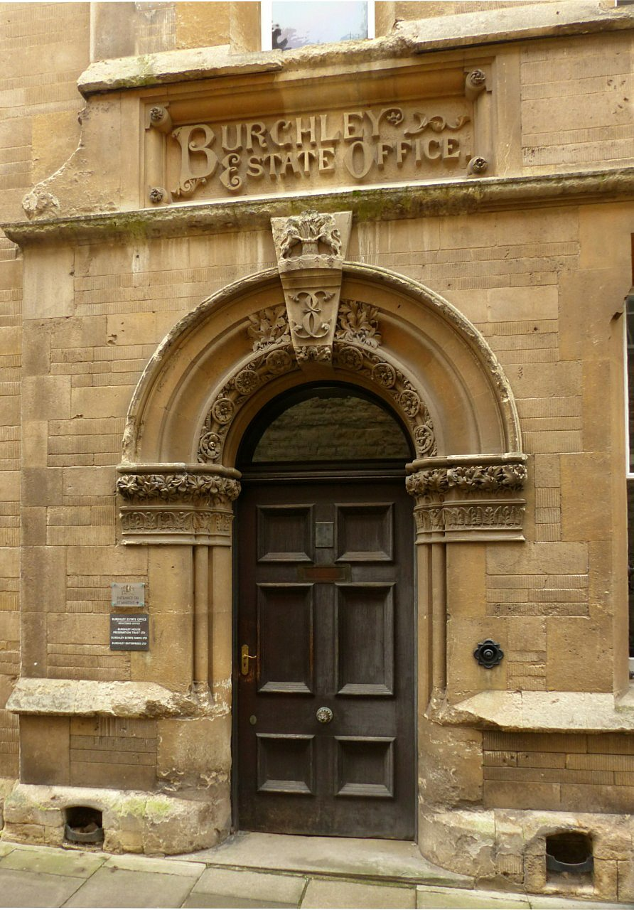 Burleigh Estate Office, Stamford, Built 1879, Listed Grade II